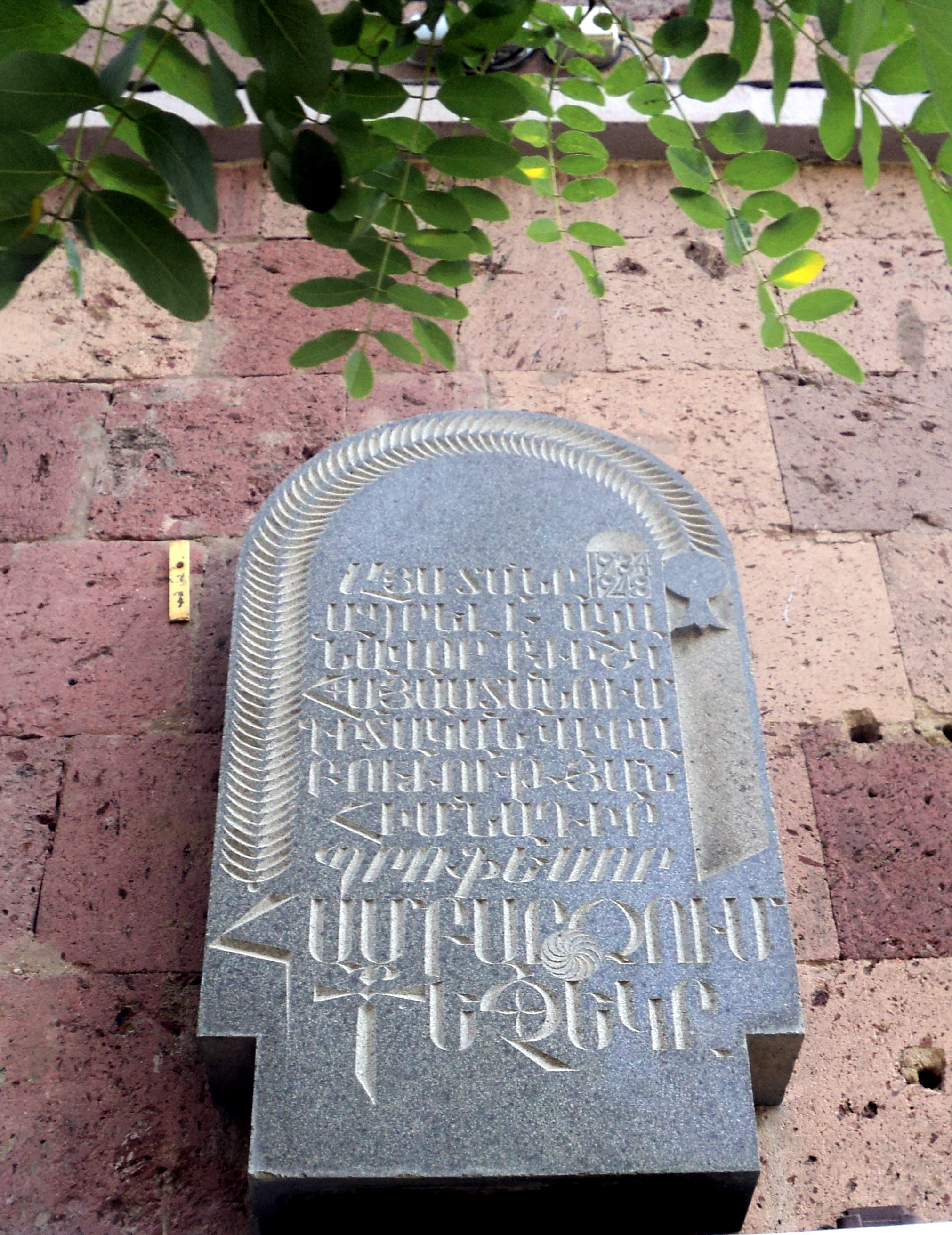 Համբարձում Քեչեկի հուշատախտակը Երևանում